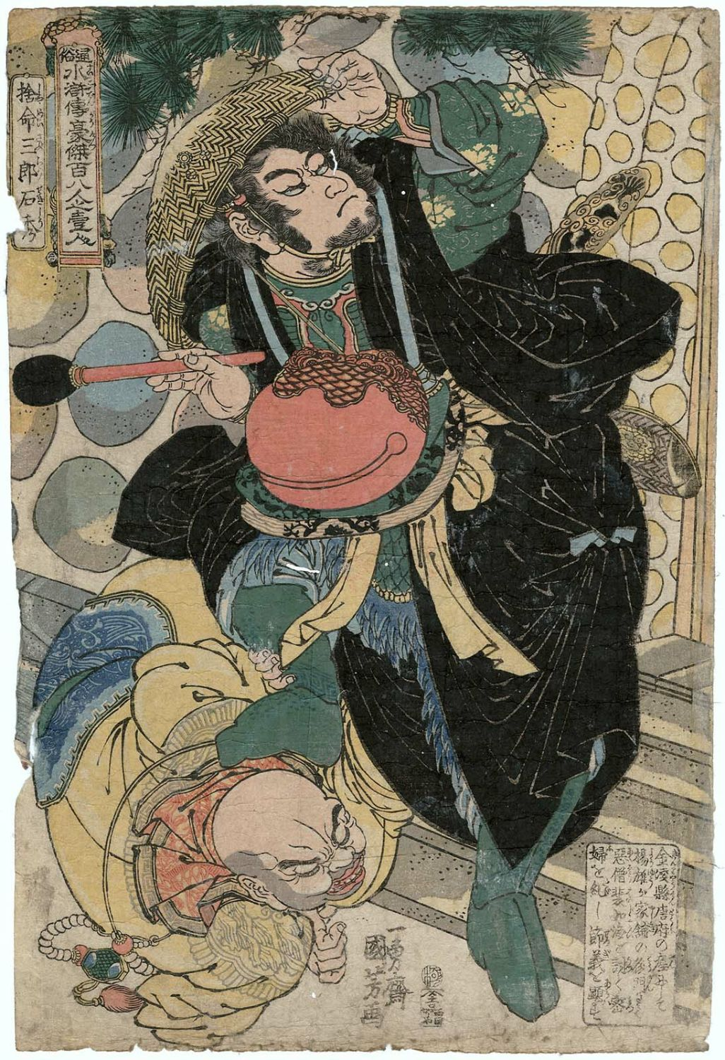 Shi Xiu (石秀), with wooden fish and temple gong, hat, stick, foot on a monk's neck